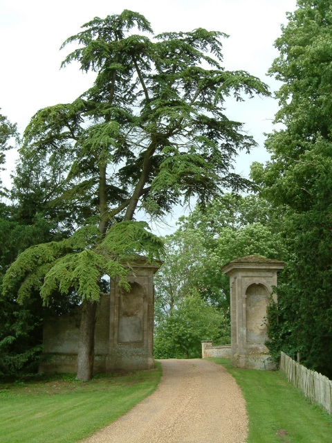 Entrance to St Mary's Abbey Behind these gates lies the site of the Abbey of St Mary founded in 1188 by Hubert Walter Dean of York who later became Bishop of Salisbury and Archbishop of Canterbury. The village of West Dereham, just up the road, is his birthplace.